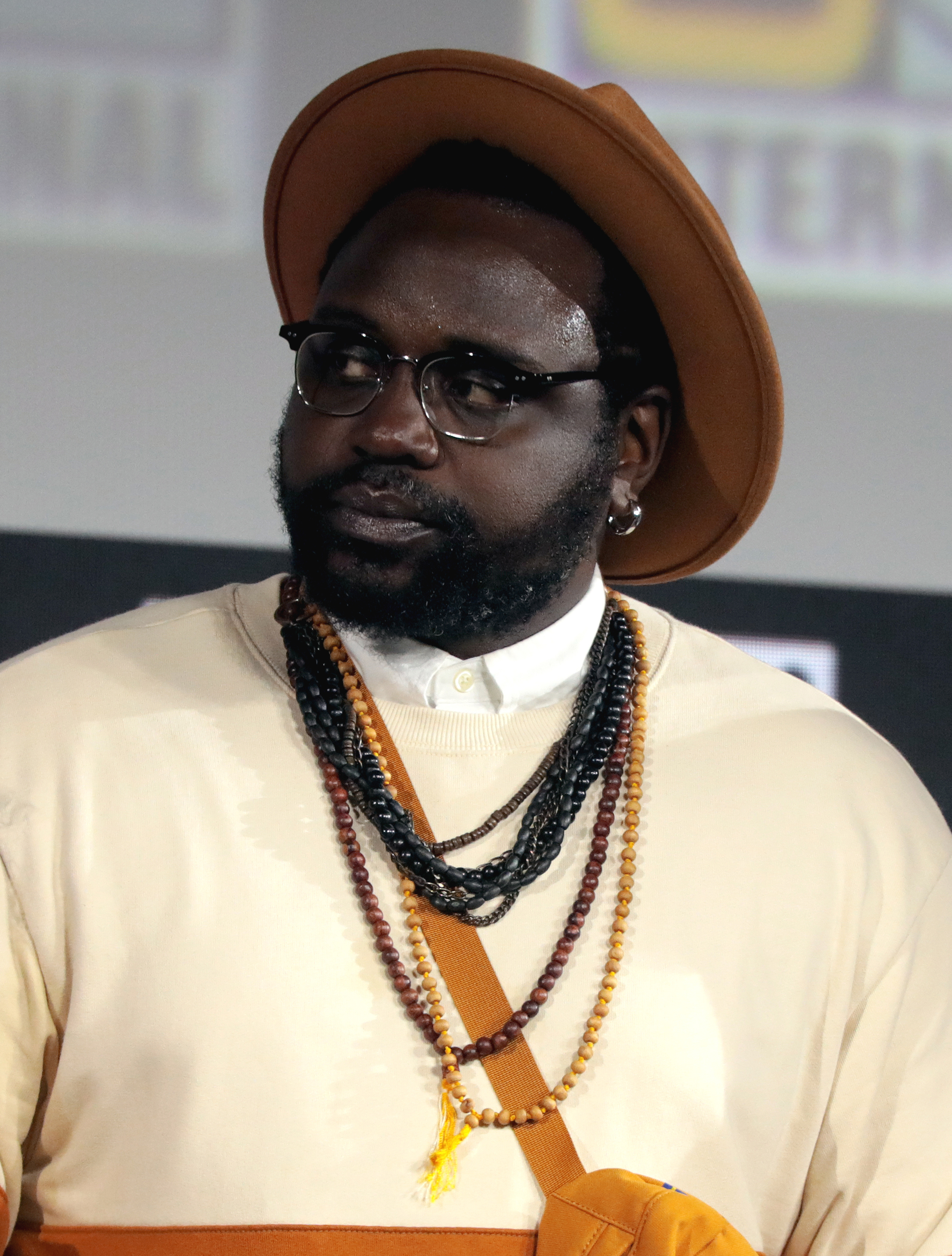 Brian Tyree Henry speaking at the 2019 San Diego Comic-Con International in San Diego, California.